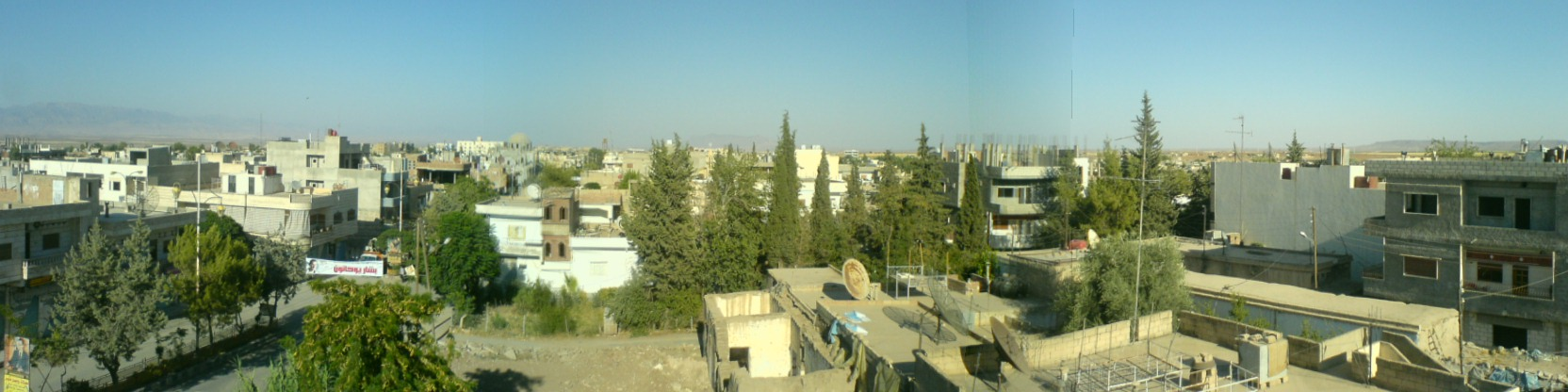 looking east; Al-Malikiyah, Syria